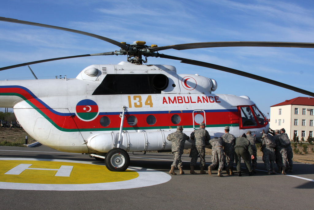 Azerbaijani soldiers in the annual 'Azerbaijan Regional Response Training' in cooperation with soldiers from the Utah National Guard's 1457th Engineer Battalion, 97th Troop Command and 65th Fires Brigade. Held in Qaraheybat, Azerbaijan, April 18-26, 2009. Regional Response 2009 is part of a continuing effort by the United States and its partners to improve interoperablity and strengthen relationships with partner militaries in theater-security operations and assist Azerbaijan with achieving its NATO interoperable objectives, as defined in its NATO individual-partnership action plan. In total, about 170 Utah National Guard Soldiers for 97th Troop Command, 1457th Engineer Battalion and 65th Fires Brigade participated alongside more than 300 Soldiers from the Azerbaijani Infantry and Peacekeeping Force Companies.